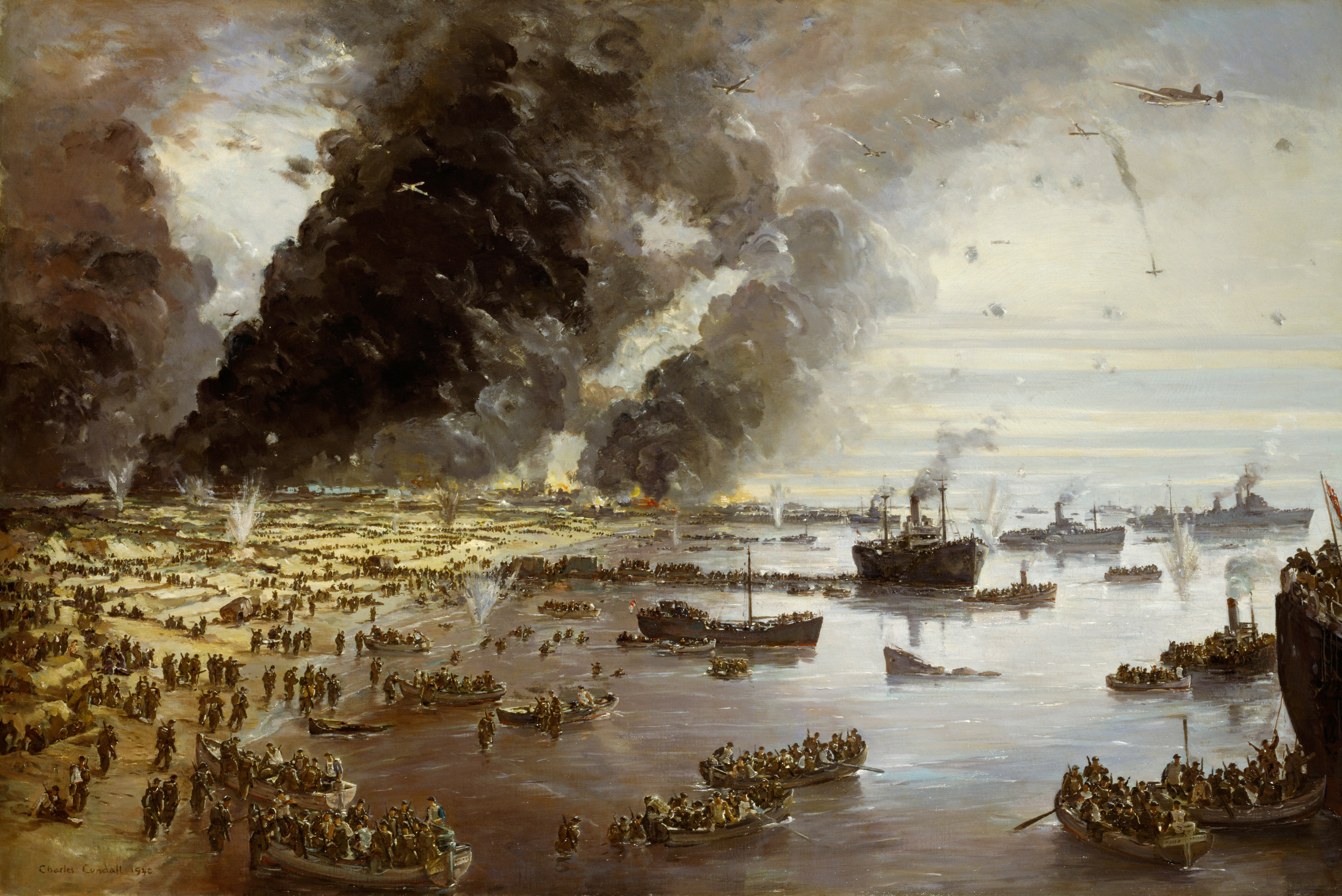 The Withdrawal from Dunkirk, June 1940 image: On the left of the painting stretch sand-dunes covered with groups and long lines of khaki-dressed troops. Small boats loaded with troops move out from the sea shore towards larger vessels to the right of the work. Across the centre troops queue along a makeshift jetty towards the waiting ships. In the left background huge black smoke clouds from the town fill the sky. Aircraft fly amongst explosions from anti-aircraft fire, one plane plummeting towards the right horizon.